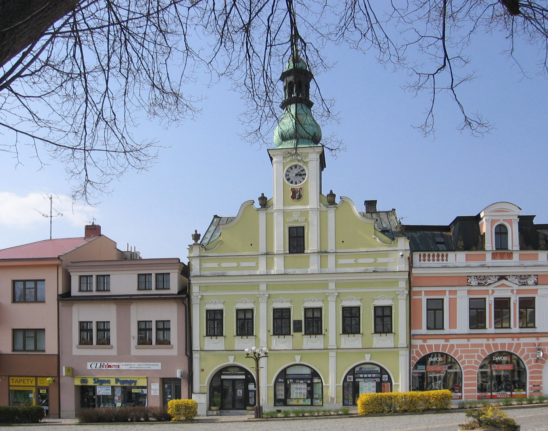 Town Hall in Rychnov nad Kněžnou, at the Old Square